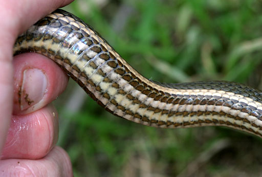 Queen Snake, Regina septemvittata, ventral surface. Location: Eno River State Park, Orange County, North Carolina, United States